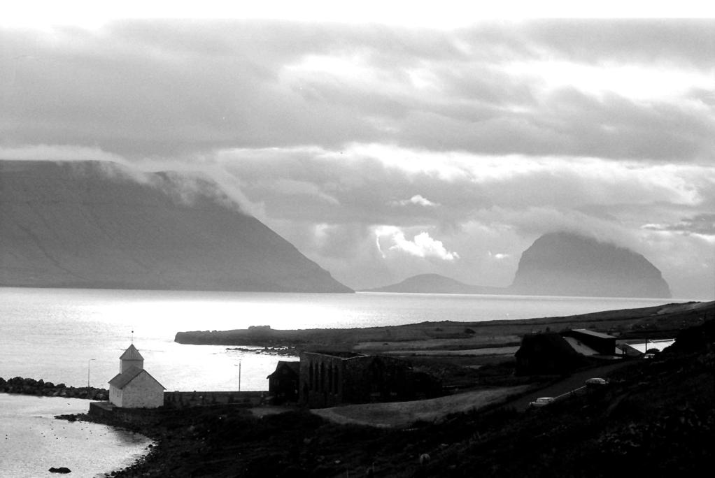 St. Olav's church in Kirkjubøur, Faroe Islands. The islands Hestur and Koltur in the background